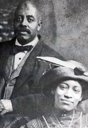 A picture of Jimi Hendrix's paternal grandparents, circa pre-1912.